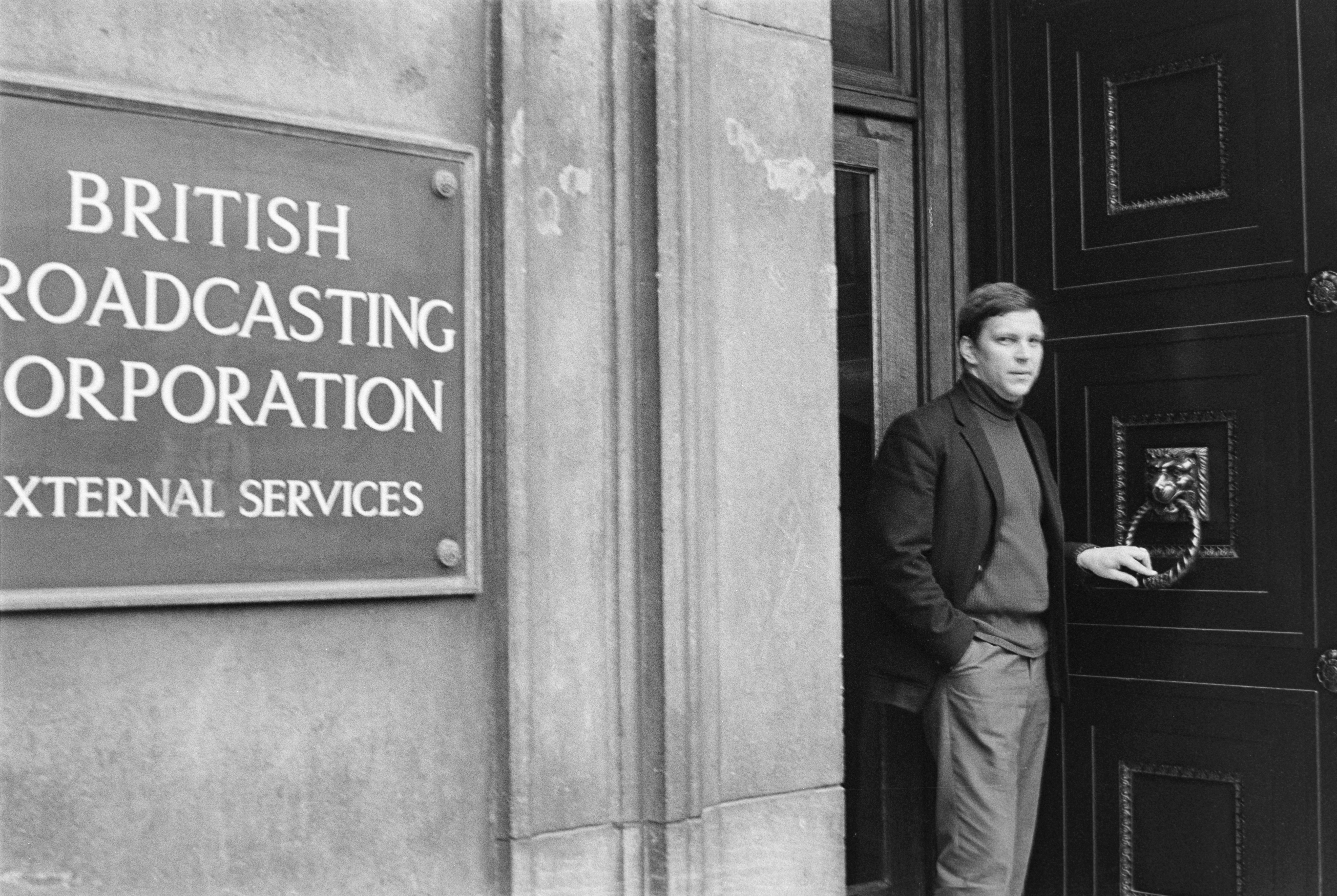 Photograph of the Finnish journalist Ari Valjakka (1941–) in London, at BBC External Services.